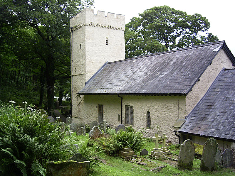 St Illtyd's parish church, Oxwich, Wales, seen from the southeast